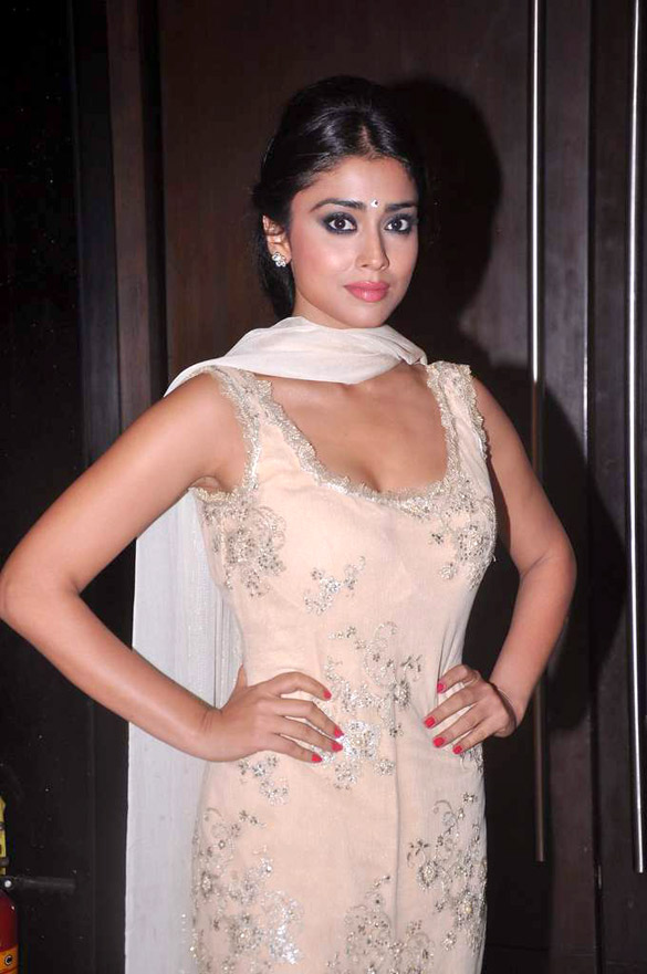 Shriya Saran at the launch of T P Aggarwal's trade magazine 'Blockbuster'